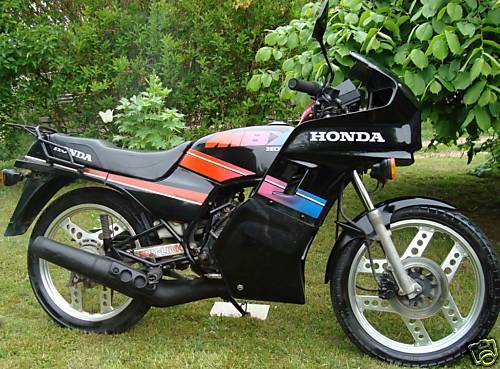 Honda MBX80 rainbow with full cowl